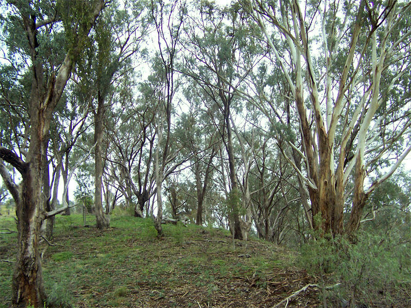 Eucalyptus